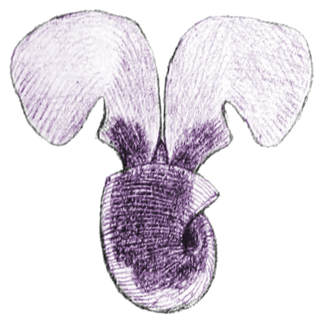 Drawing of dorsal view of Limacina helicina.